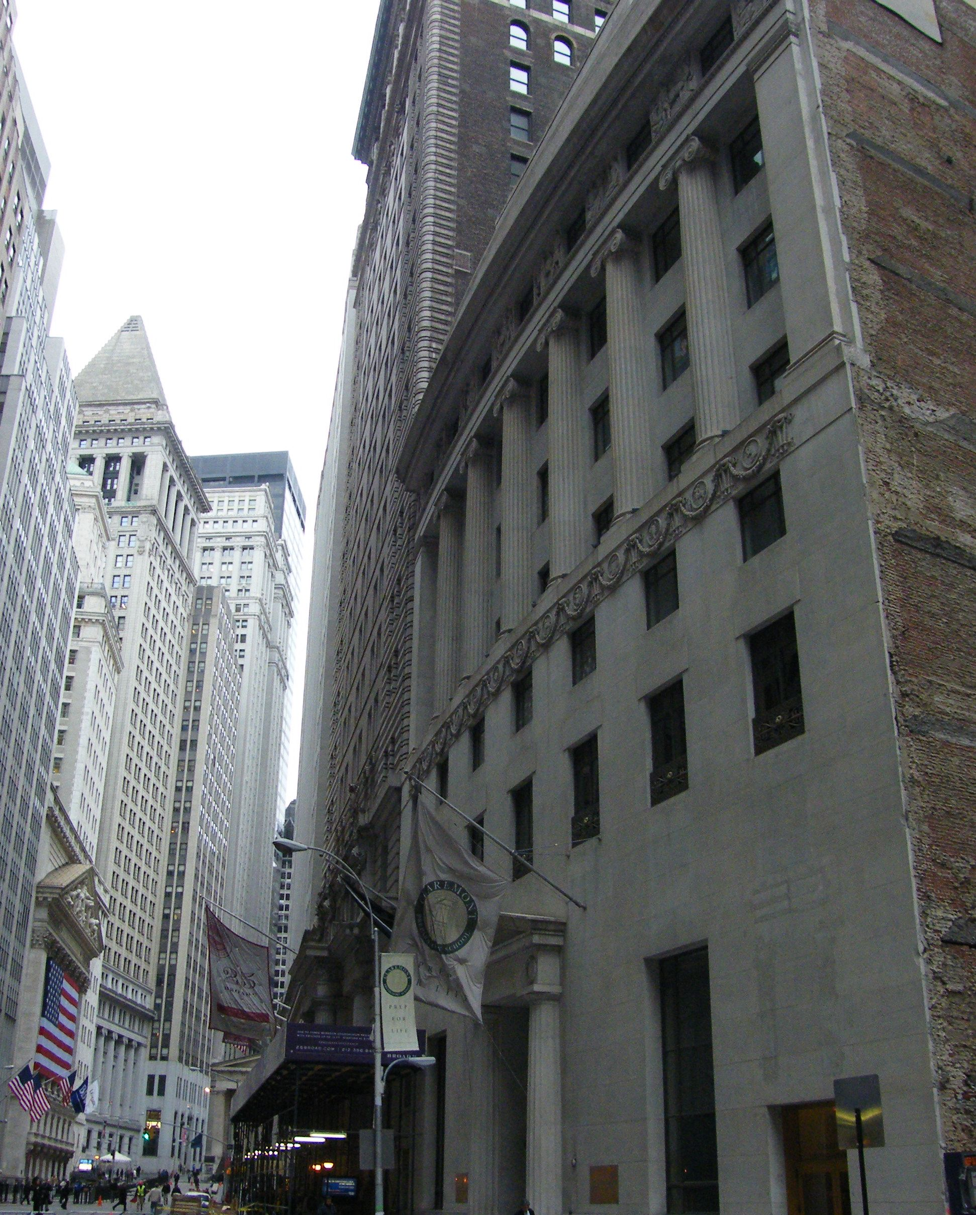 41 Broad Street on National Register of Historic Places in New York City